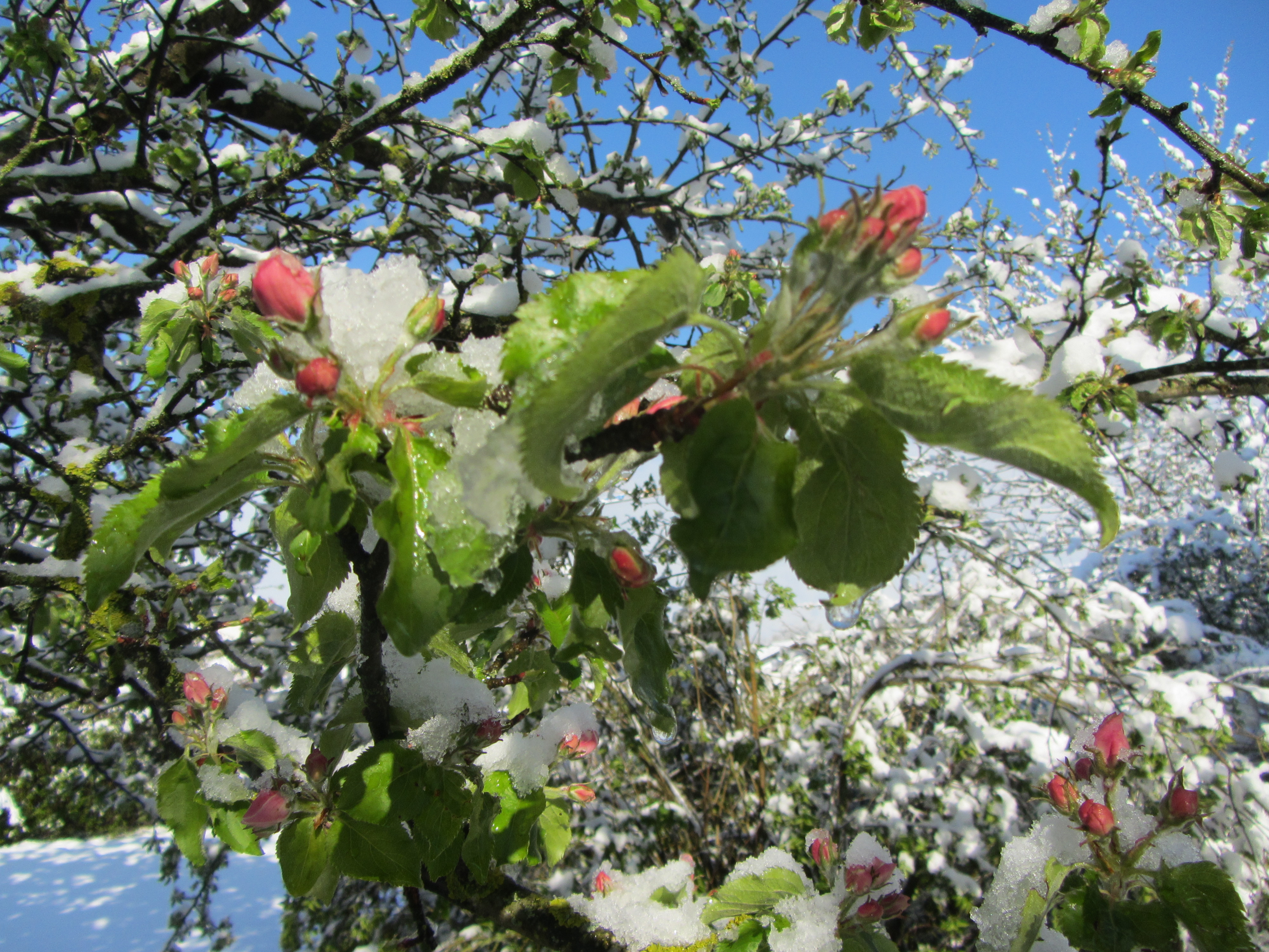 Snow on Malus domestica blossom - the winter is back in Tannheim - South Germany! (27 April 2016).